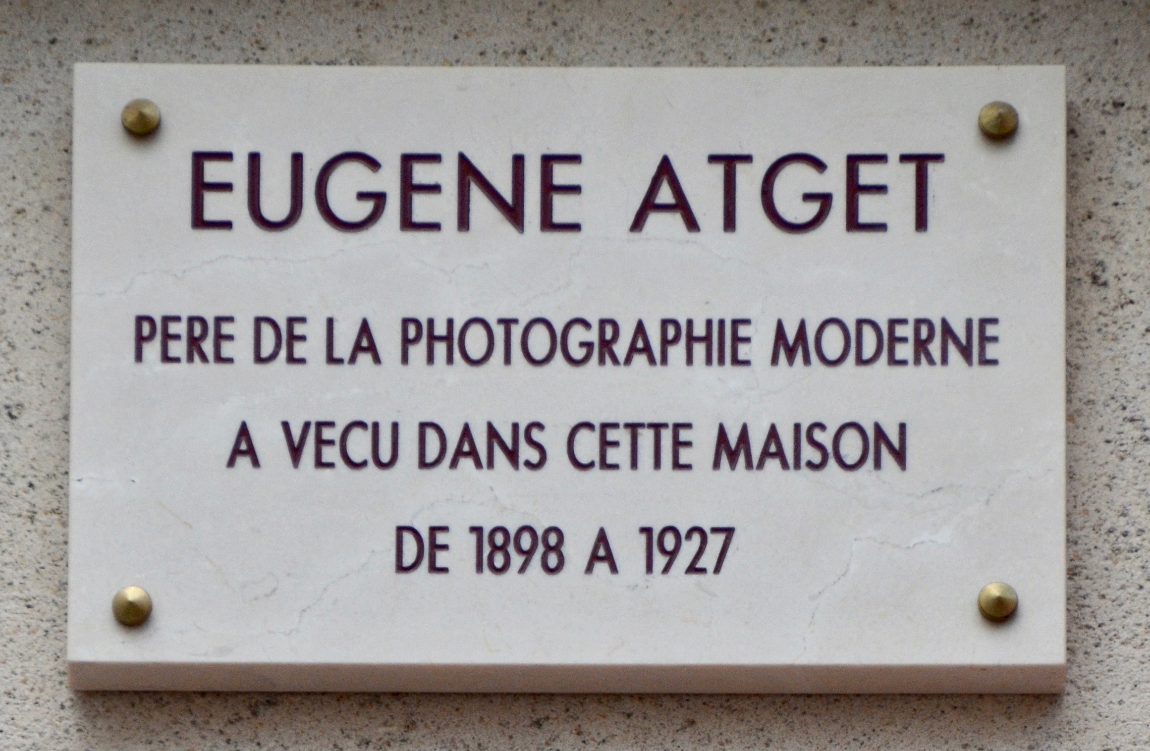 Read about this famous Parisian photographer here